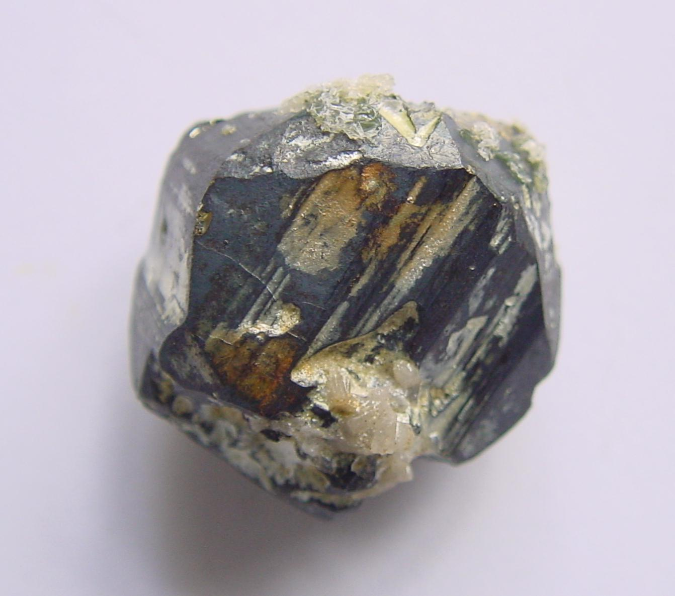 Djurleite pseudomorph after pyrite from Santa Rita, Grant County, New Mexico. Specimen size 2.4 cm.